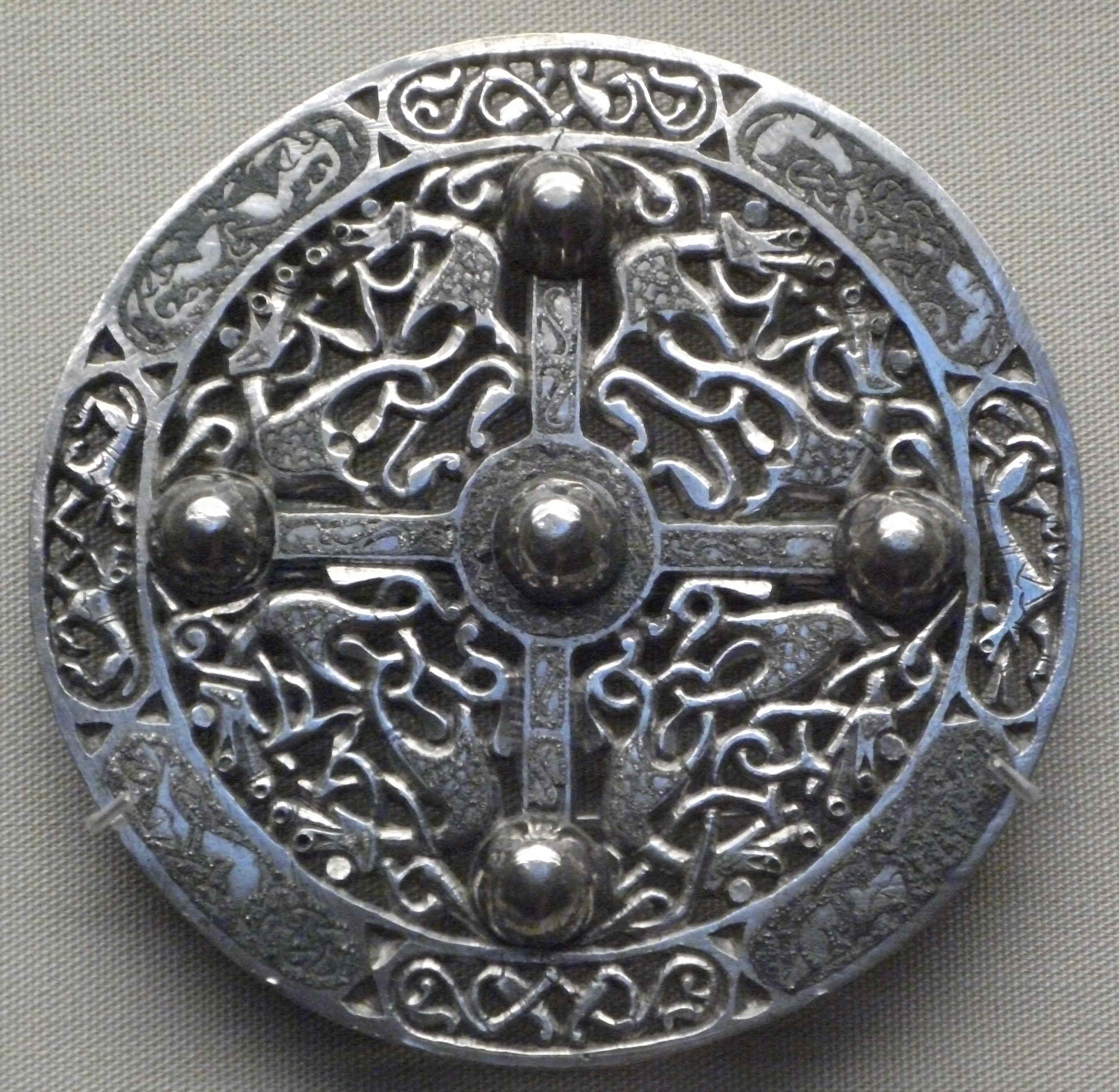 Anglo_Saxon openwork silver round brooch, British Museum, from the Pentney Hoard, 1980,1008.3, BM page